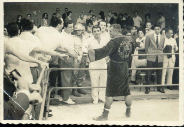 Manoel Severino. Ex lutador de boxe.